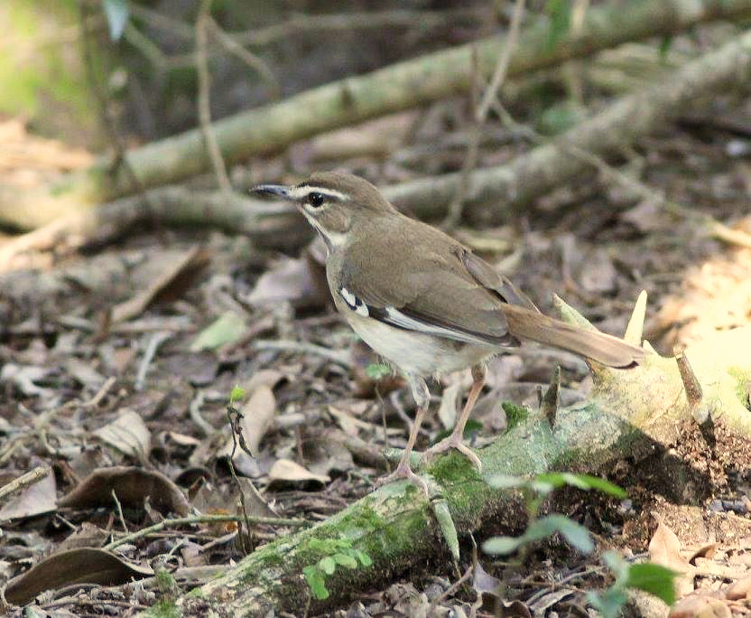 An adult Brown scrub robin at St Lucia village in northern KwaZulu-Natal, South Africa